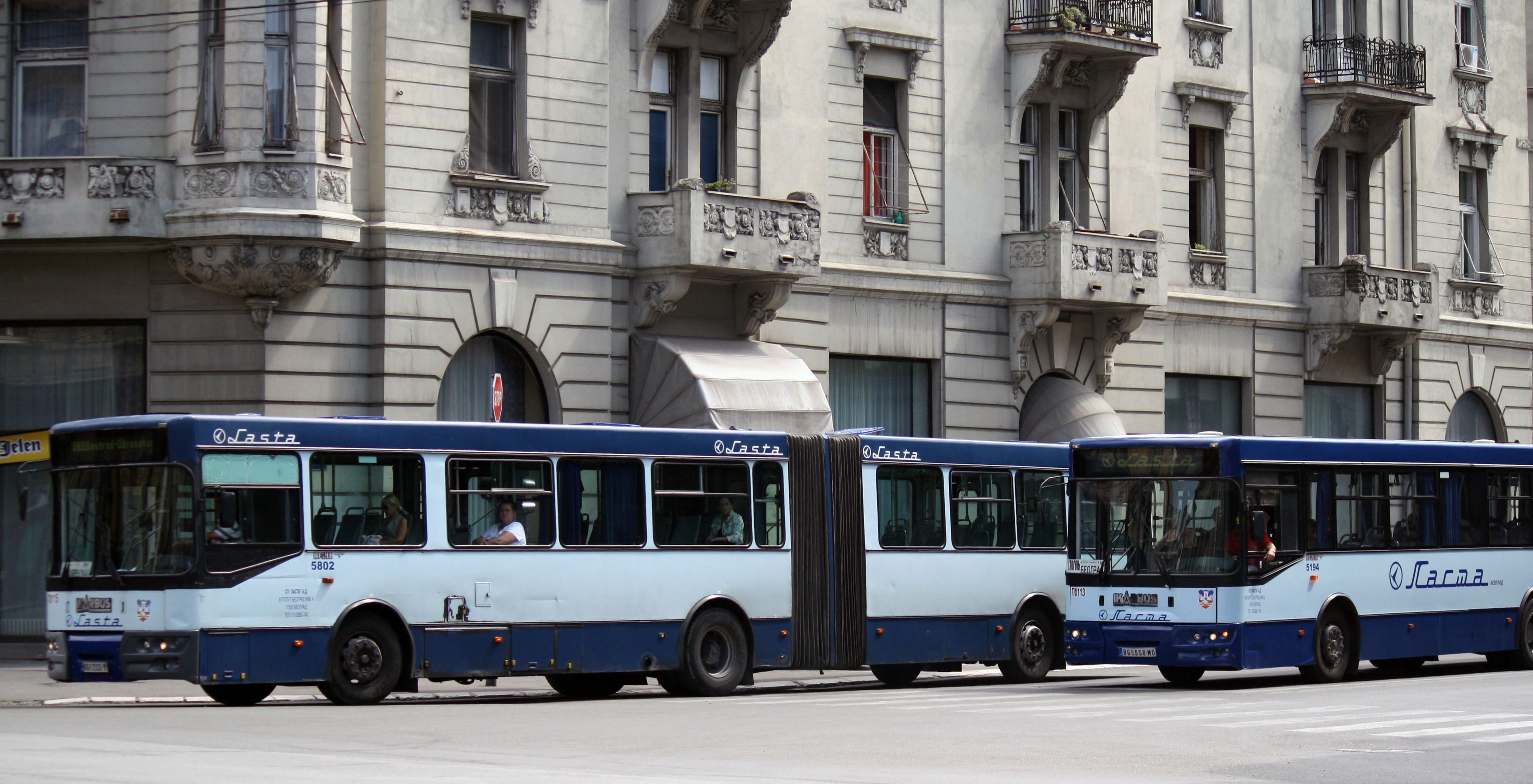 Ikarbus IK 201 and IK-206 suburban buses of Lasta Beograd bus operator near Lasta bus station.